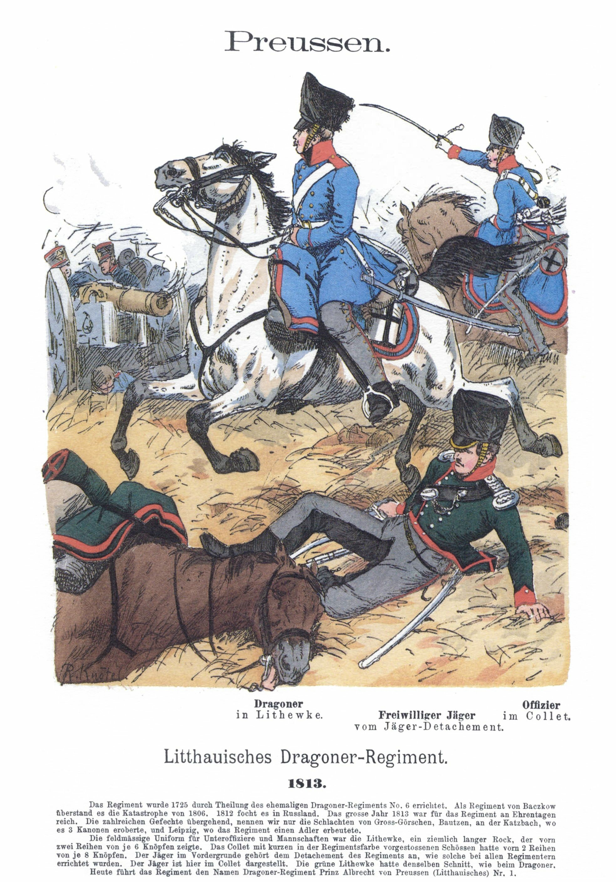 Preußen. Litthauisches Dragoner-Regiment. 1813